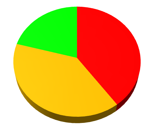 Expressed as a pie chart in the Nagano gubernatorial election in 2010, the number of votes for each candidate. explanatory notes ■ - Shuichi Abe ■ - Yoshimasa Koshihara ■ - Takeshi Matsumoto